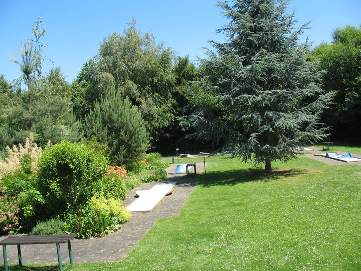 Minigolf Park in Dormagen/Germany